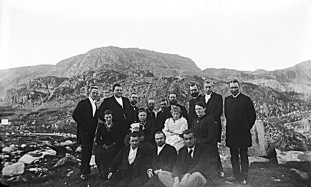 Qaqortoq, Greenland, 1894: Backrow from left: Erik Vilhelm Bache, pastor Frandsen, Gustav Holm, ?, ?, Conrad Brummerstedt, Jens Berentz, Pastor Rüttel. Midrow: Frau Frandsen, Frau Brummerstedt, ?, Frau Rüttel. front row unknown